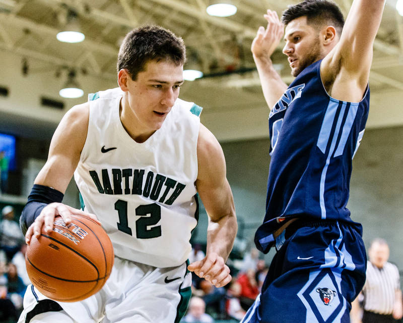 Maldunas driving by a defender